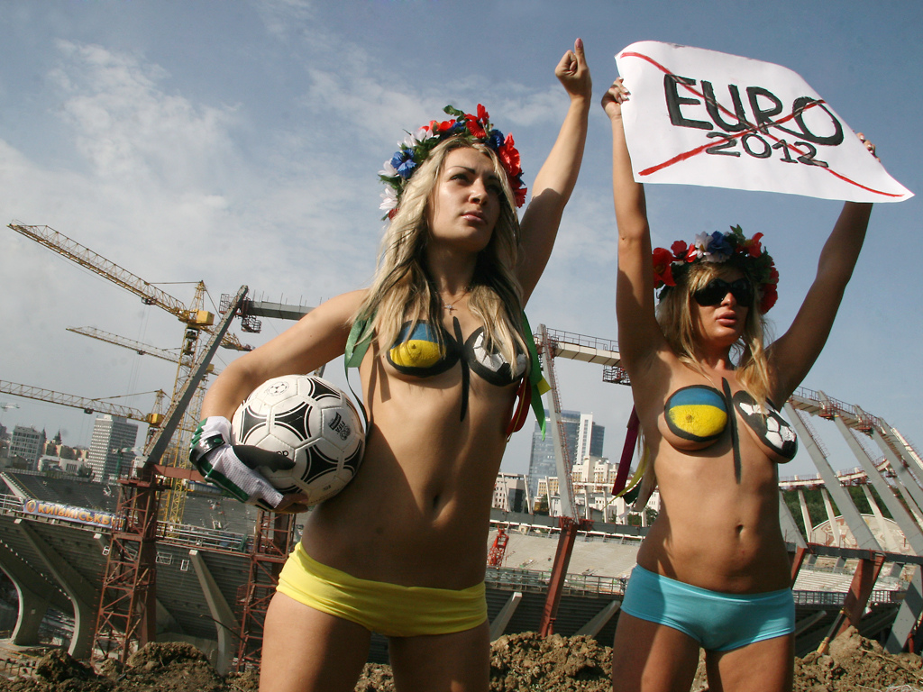 Femen activists protest against the Euro 2012 in Ukraine.